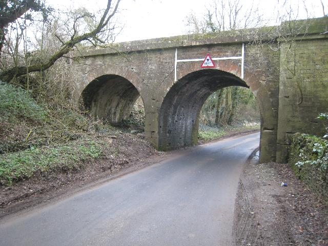 Cirencester branch bridge This well constructed stone bridge carried the former GWR branch from Kemble to Cirencester Town. Immediately to the left of the left hand arch was another bridge which carried the railway over the Thames & Severn Canal.